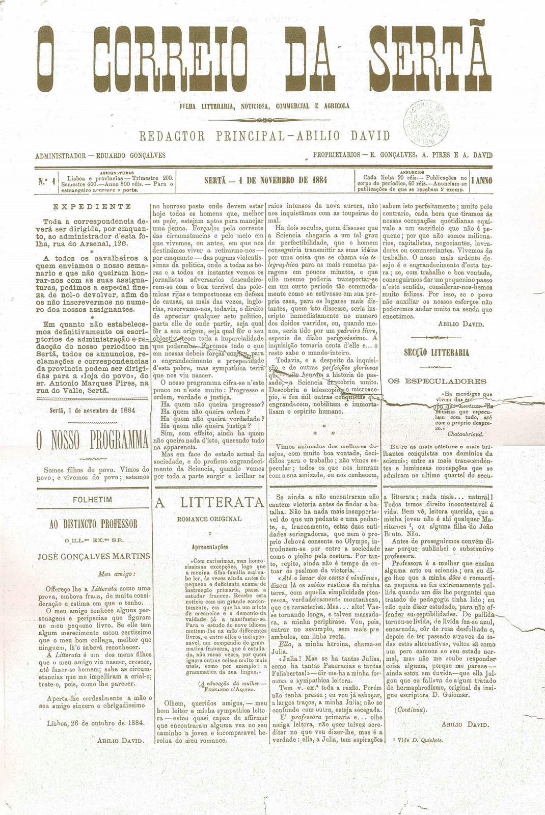 Cover of a 1884 newspaper